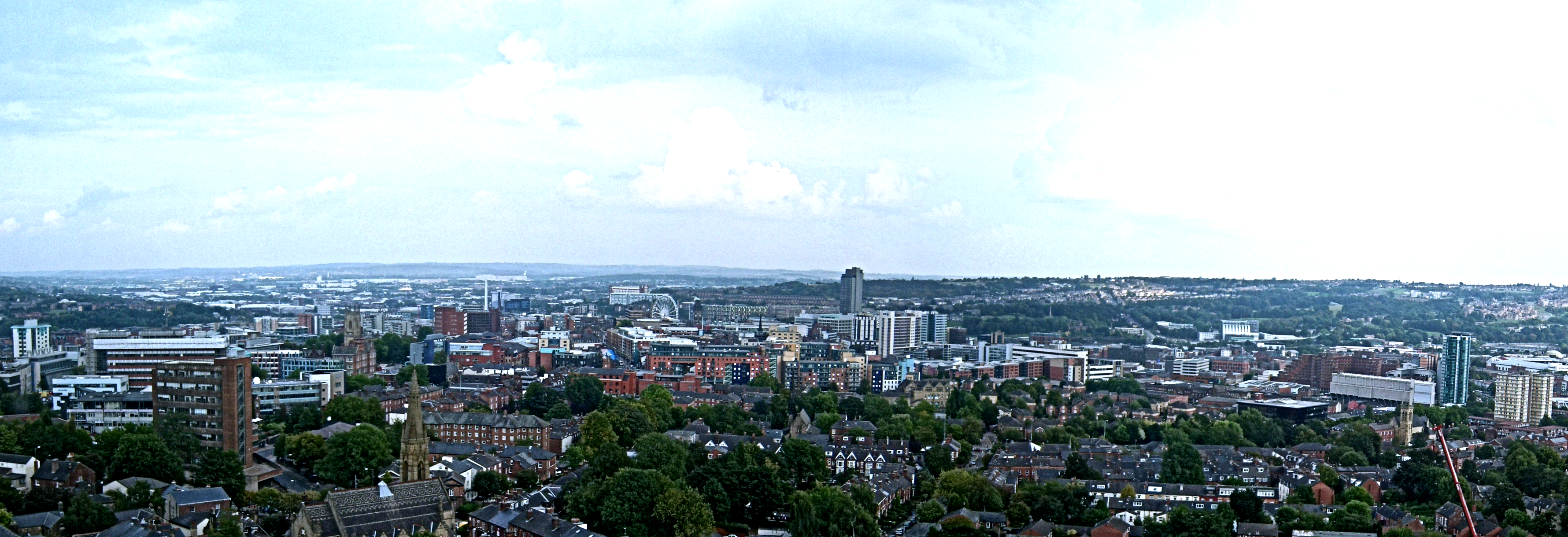 Sheffield panorama